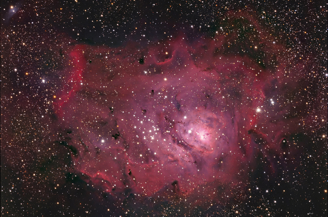 M8 Lagoon Nebula in Sagittarius